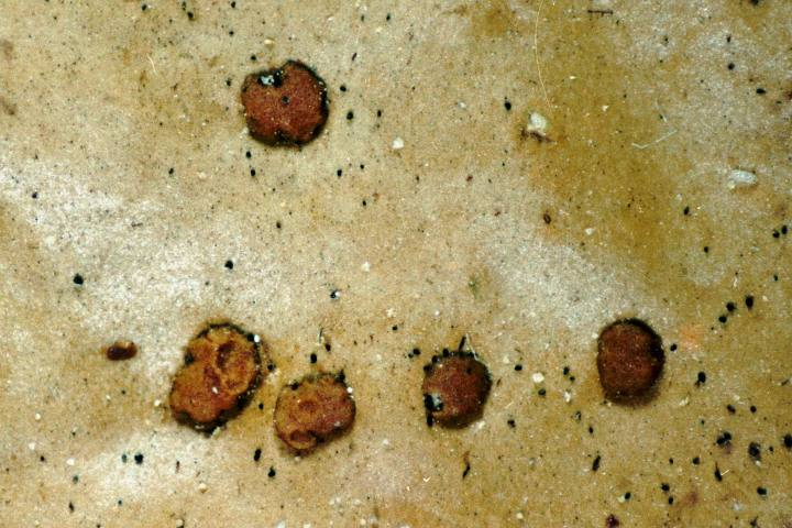 Peltigera aphthosa (L.) Willd., 1787 (photograph of a herbarium specimen taken through a dissecting microscope (x18) showing cephalodia on the upper surface of a lobe) Growing on a moss covered Birch stump in a heavy deciduous forest at Lake Laverty; collected and identified by A. Norden and B. Norden (No. 640, 7 Jun 1974); specimen is now in the Lichen Herbarium of the New York Botanical Garden.